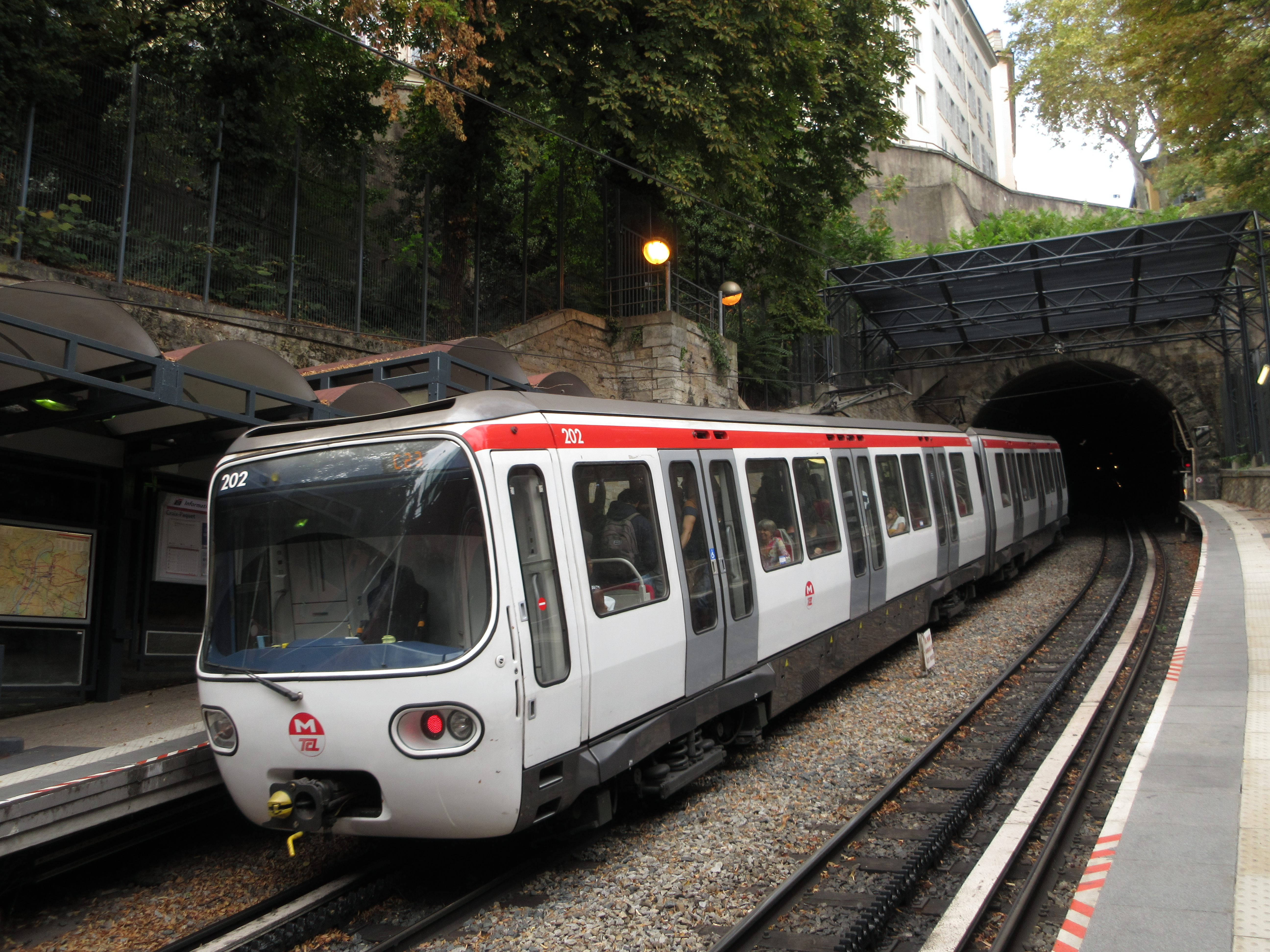 metro train line C of Lyon (France) taken from entry of station "Croix Paquet". Between the rails of the tracks you can see the rack-rail (dark) and a tube for cables (light).